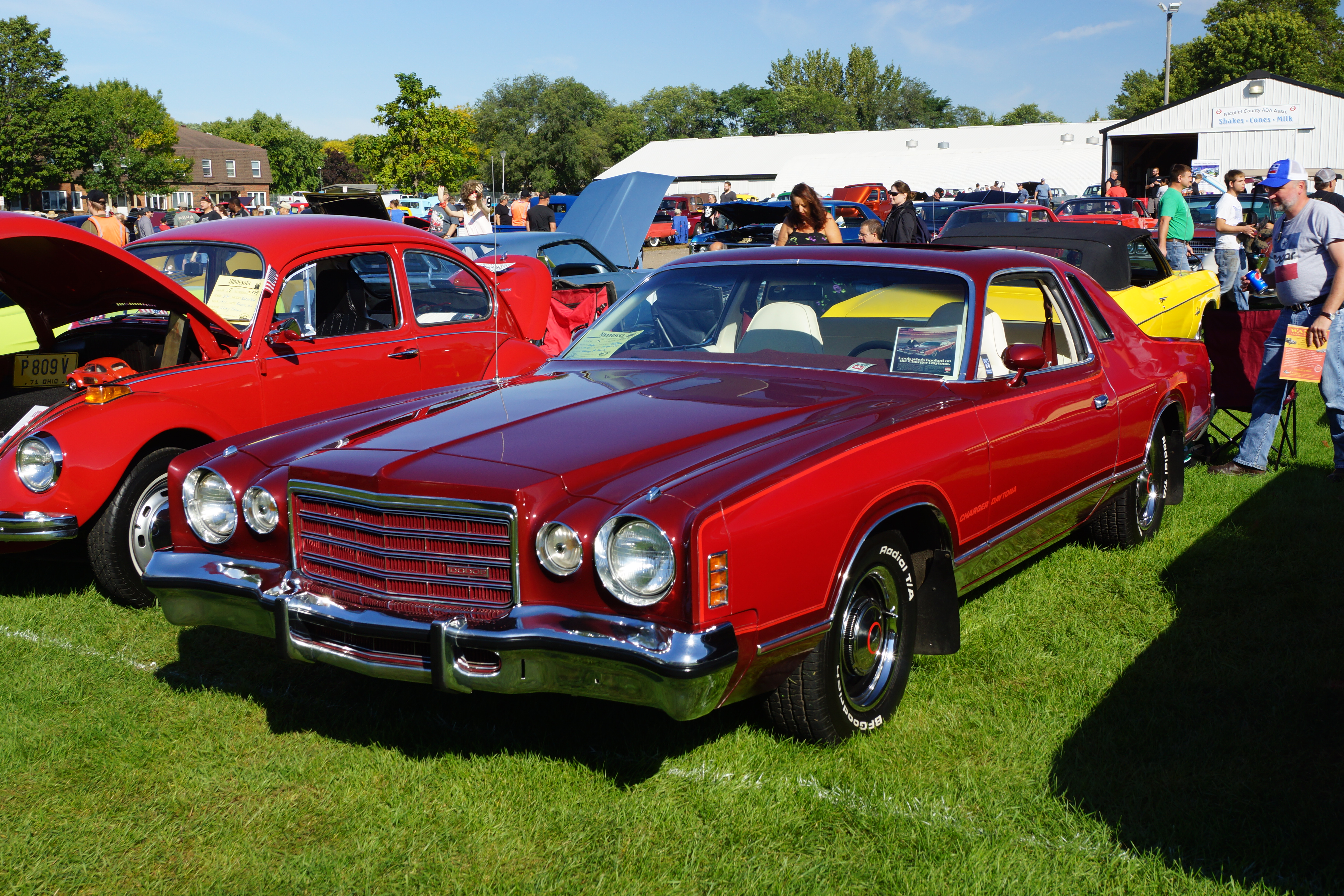 Auto Restorers Club of Southern Minnesota 40th Annual Car Show & Swap Meet Nicollet County Fairgrounds St. Peter, Minnesota September 2016 Click here for more car pictures at my Flickr site.